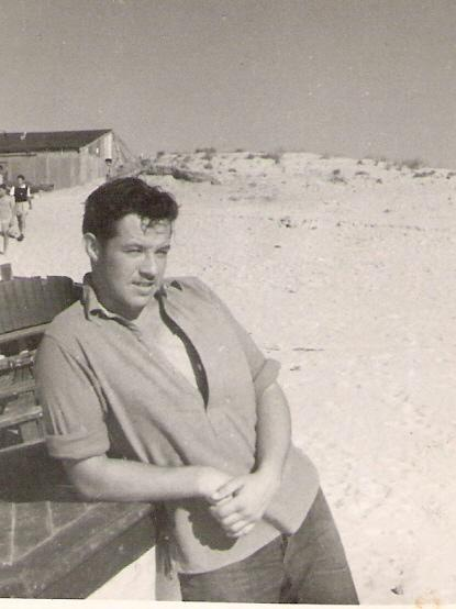 Dahn Ben-Amotz in kibbutz Sdot Yam, 1946